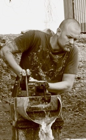 Doc Hendly pumping water from a well in Peru